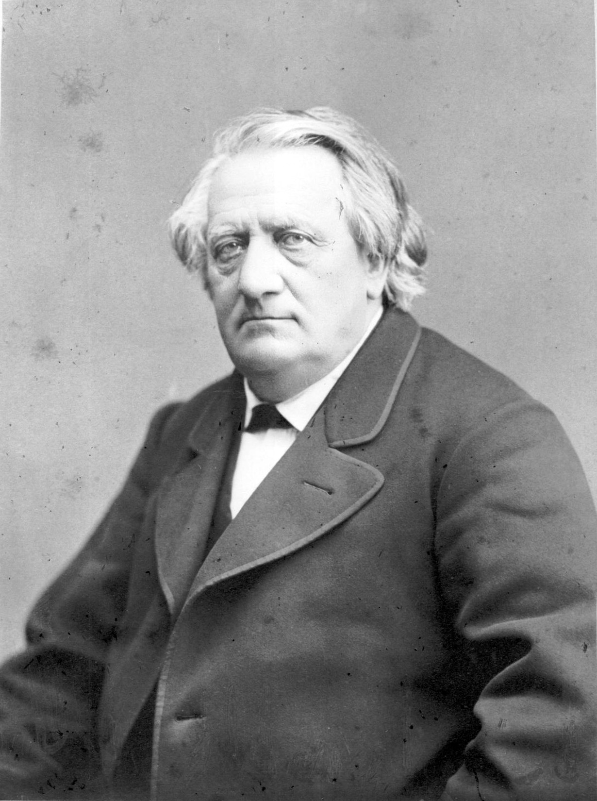 Depicted person: Franz Lachner